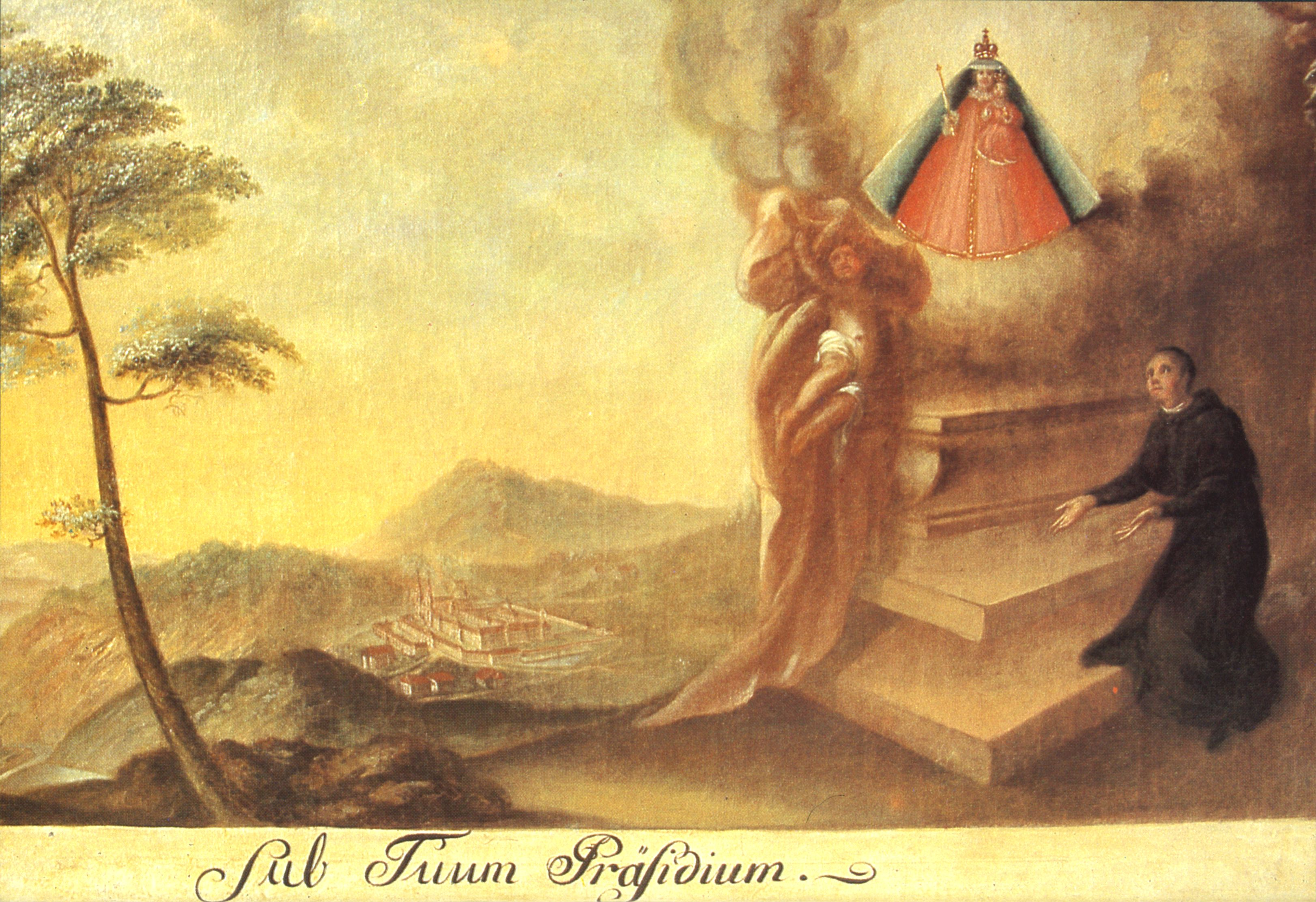 Votive painting, 1794, by Simon Göser showing abbot Philipp Jakob Steyrer and in the background the monastery of St. Peter in the Black Forest